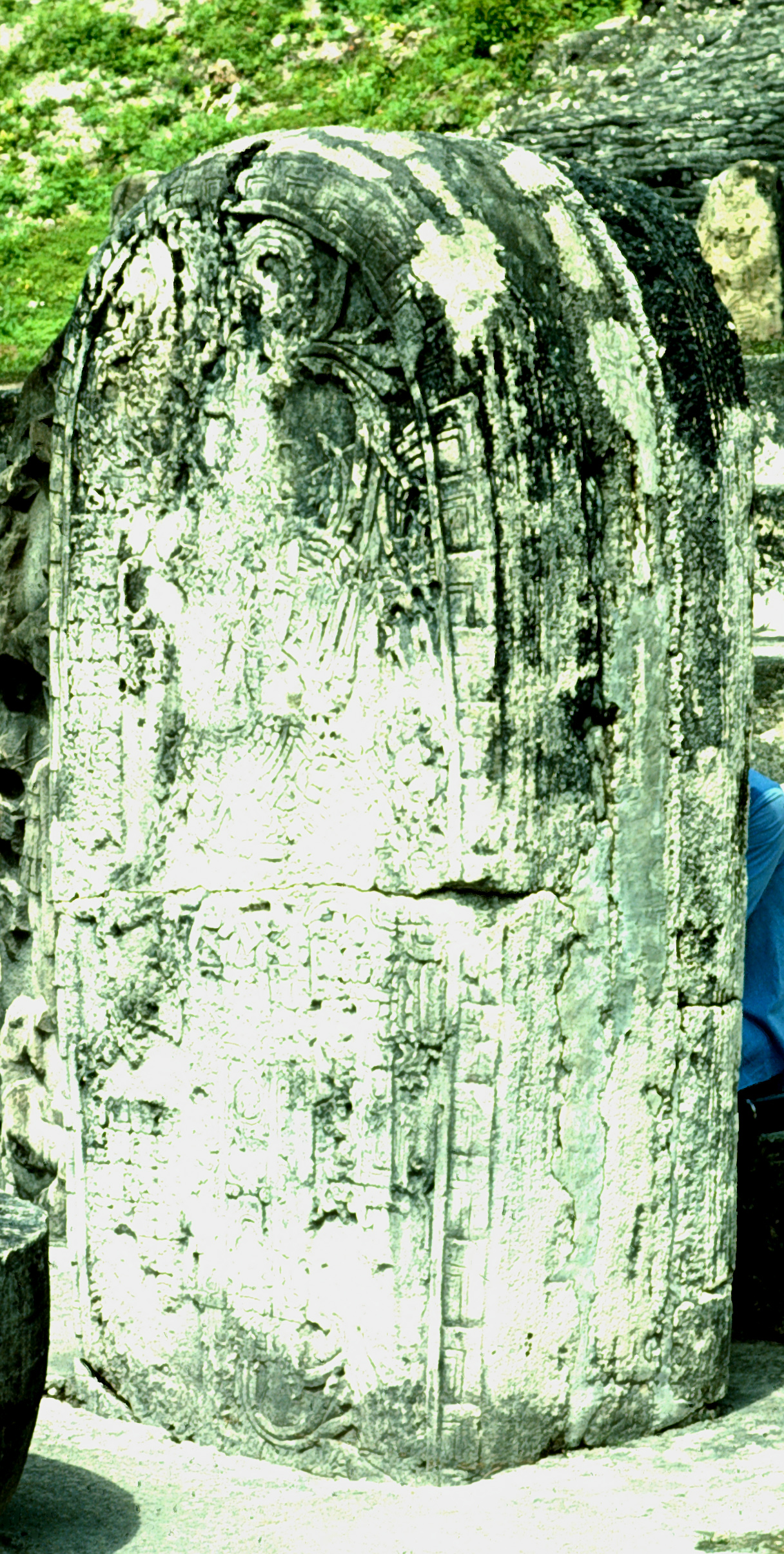 Tikal, Guatemala: Stela 11